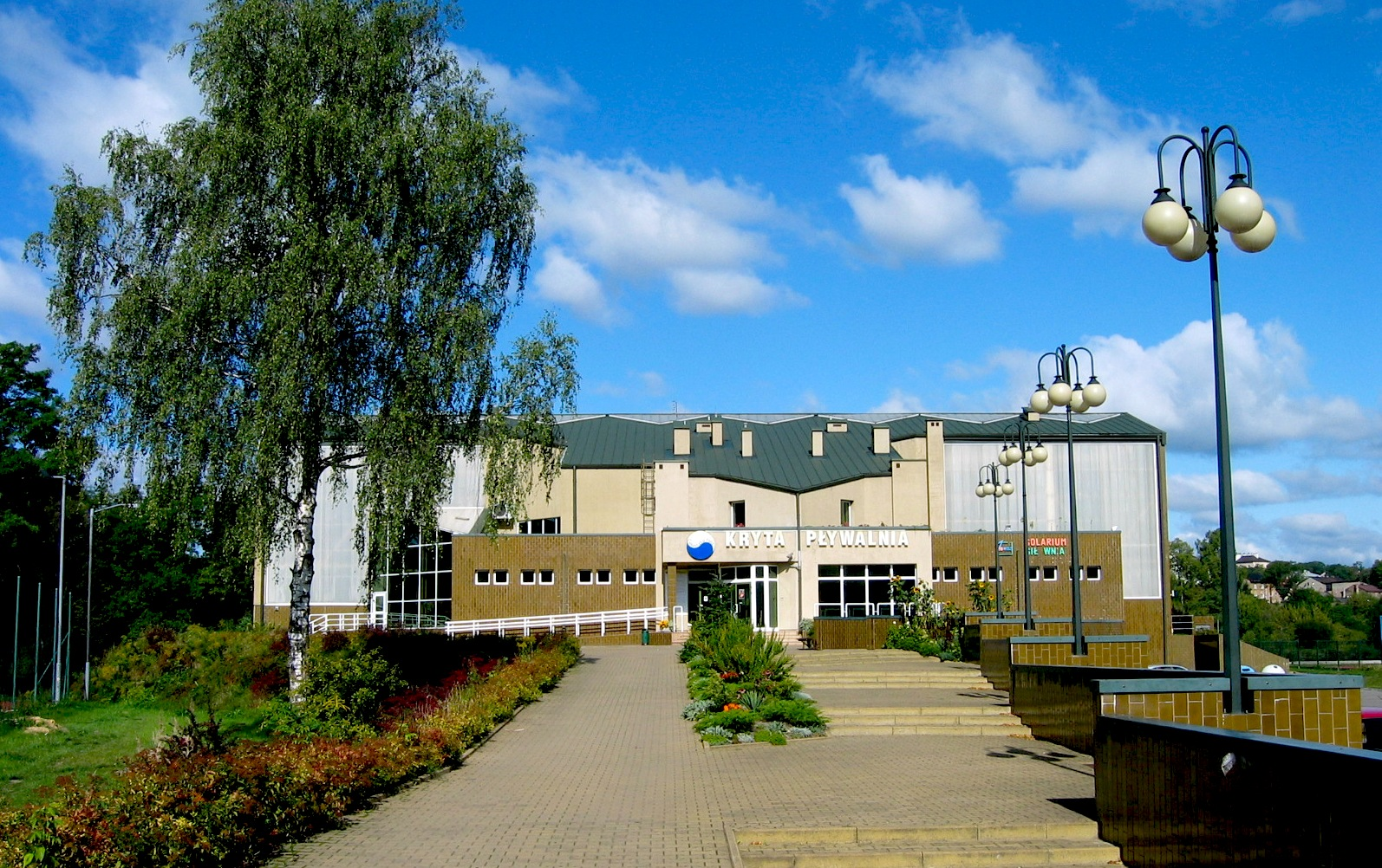 Chrzanów, the indoor swimming pool "Cabańska fala"